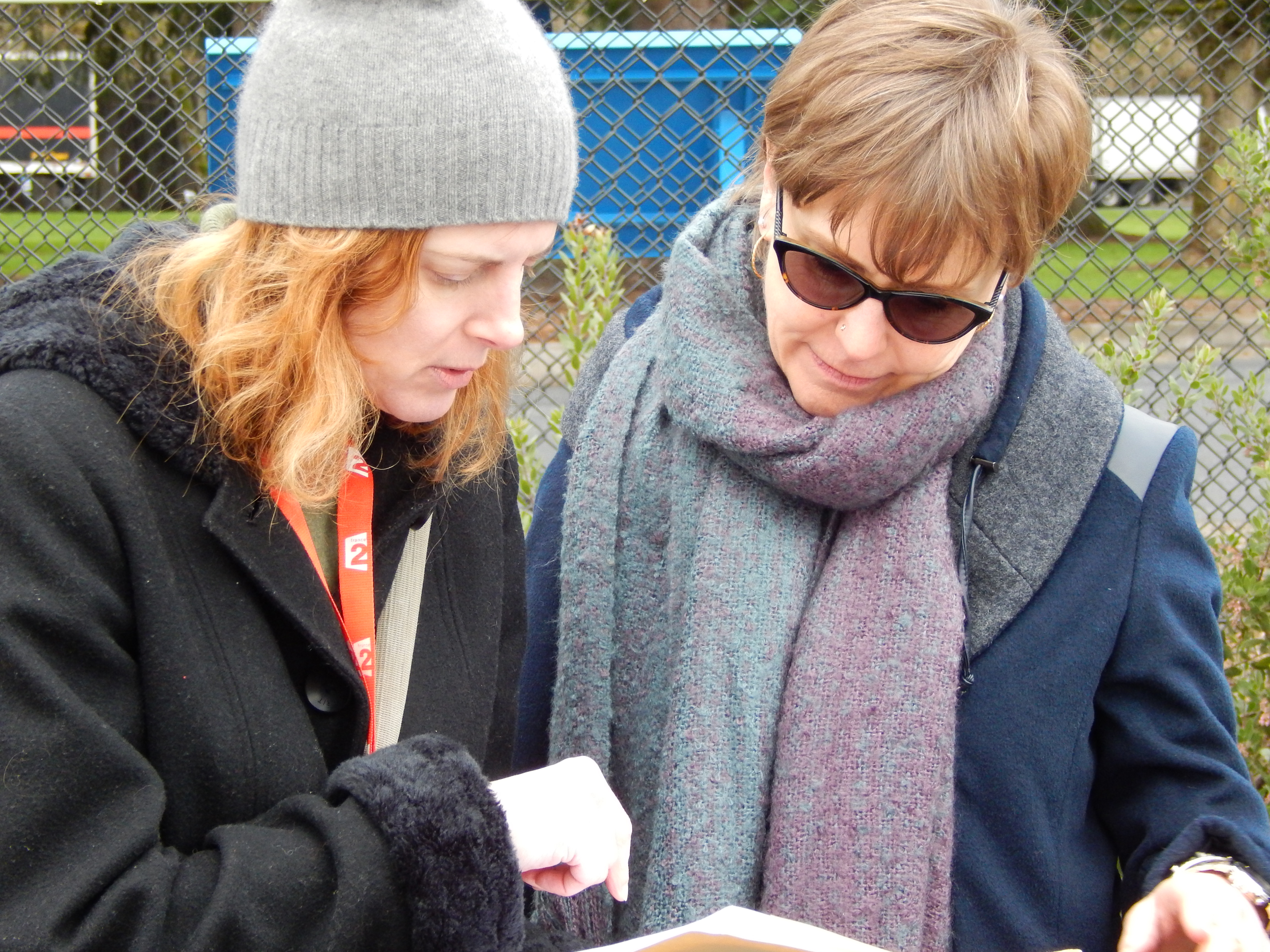 Reporter Sherron Lumley speaks with Allison Hamilton about Oregon's Solar Highway. A reporting team from France 2 TV visited Oregon's Solar Highway for a news story. Baldock site.